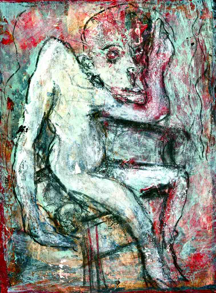 To amuse themselves and boost morale of staff, concentration camp commandants staged plays in the camps, often using famous stage actors to perform for them, Hamlet in parody was a popular play at Theresienstadt.